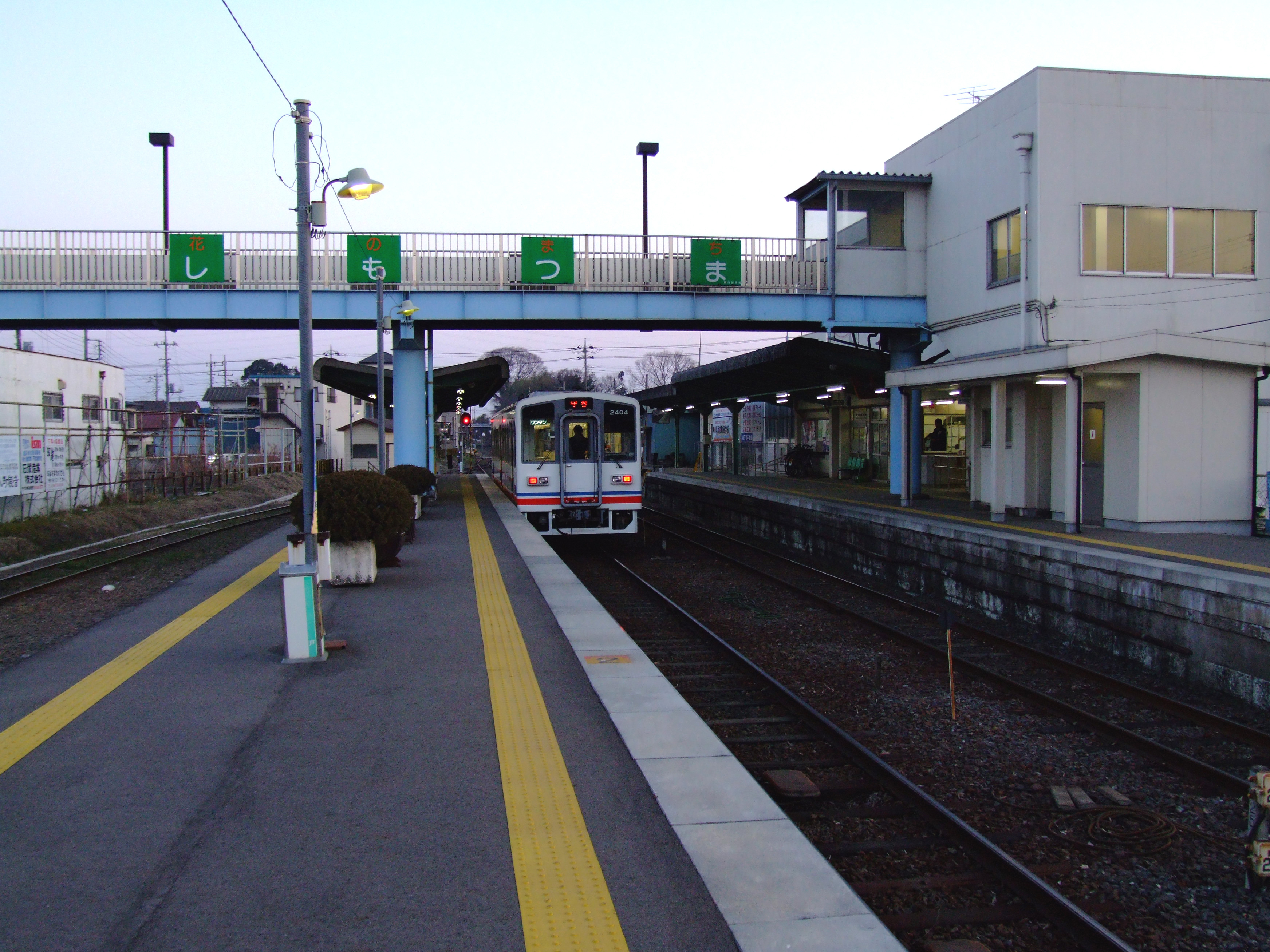 Shimotsuma Station platform (Kantō Railway Jōsō Line)